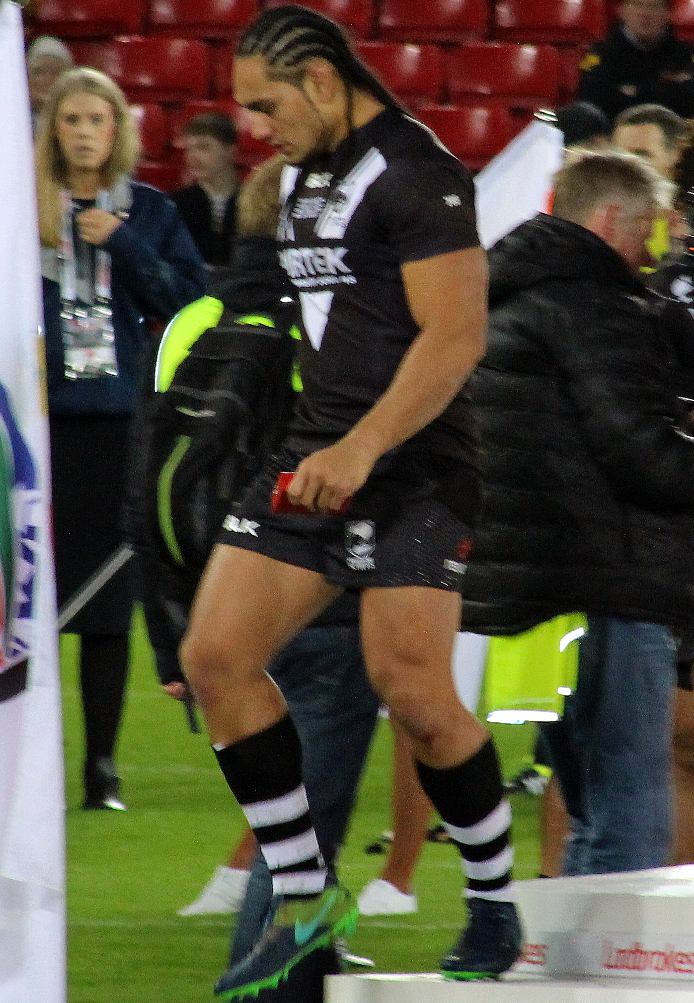 Martin Taupau